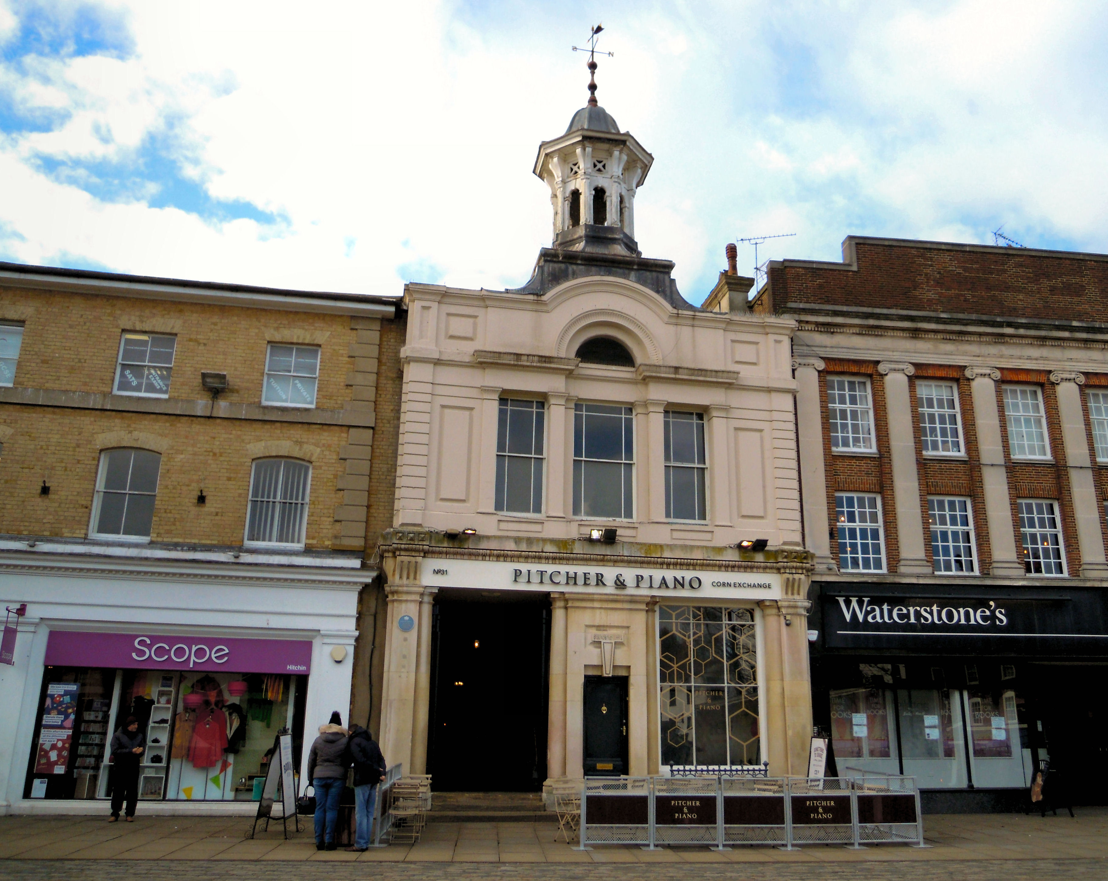 No 31 Market Square in Hitchin in Hertfordshire (formerly the Corn Exchange).